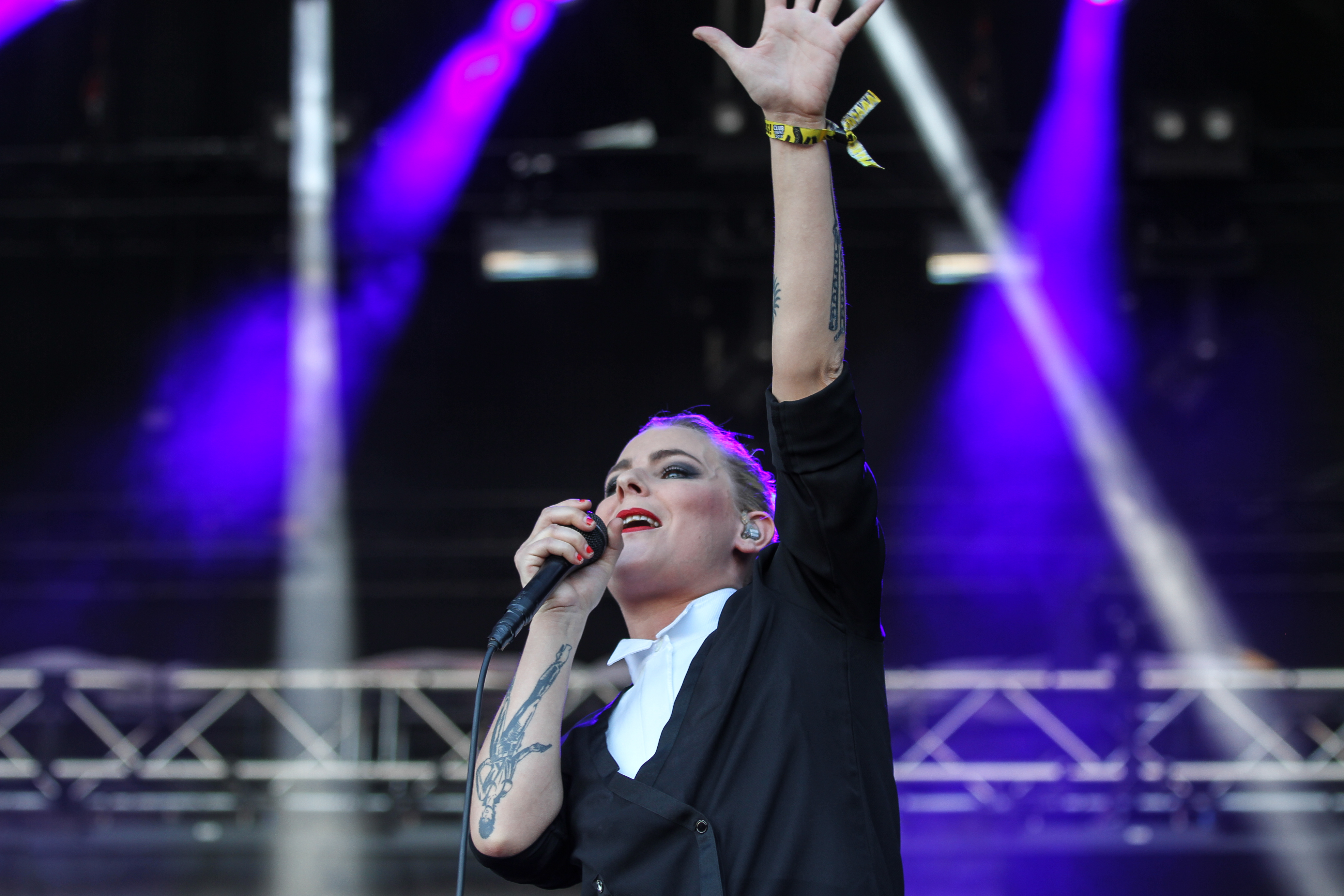 The Sounds performing at Berlin Festival 2013